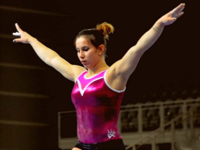 Erika Fasana. Padua, 23rd february 2013